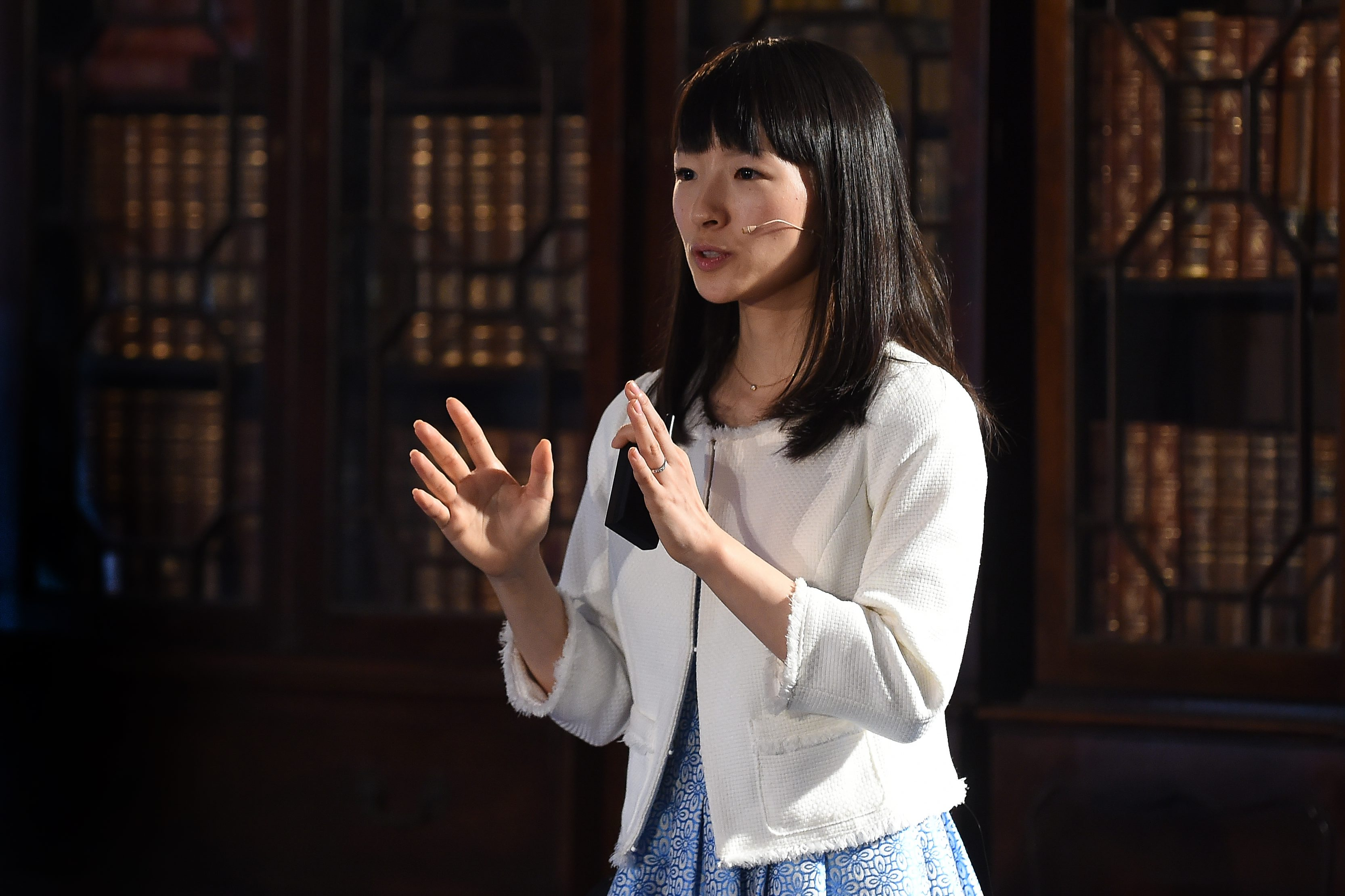 4 November 2015; Marie Kondo, Author and Organising Consultant, Marie Kondo, on the Society Stage during Day 2 of the 2015 Web Summit in the RDS, Dublin, Ireland. Picture credit: Diarmuid Greene / SPORTSFILE / Web Summit